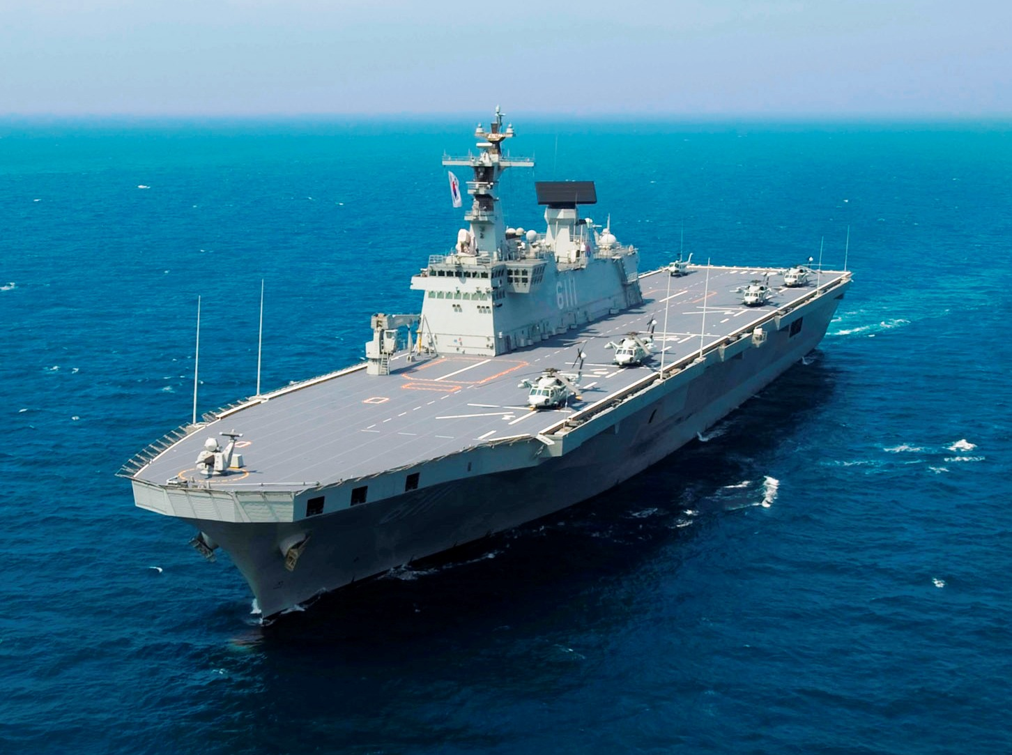 Republic of Korea Ship (ROKS) Dokdo (LPH 6111) steams in the Sea of Japan during operation “Invincible Spirit.”.